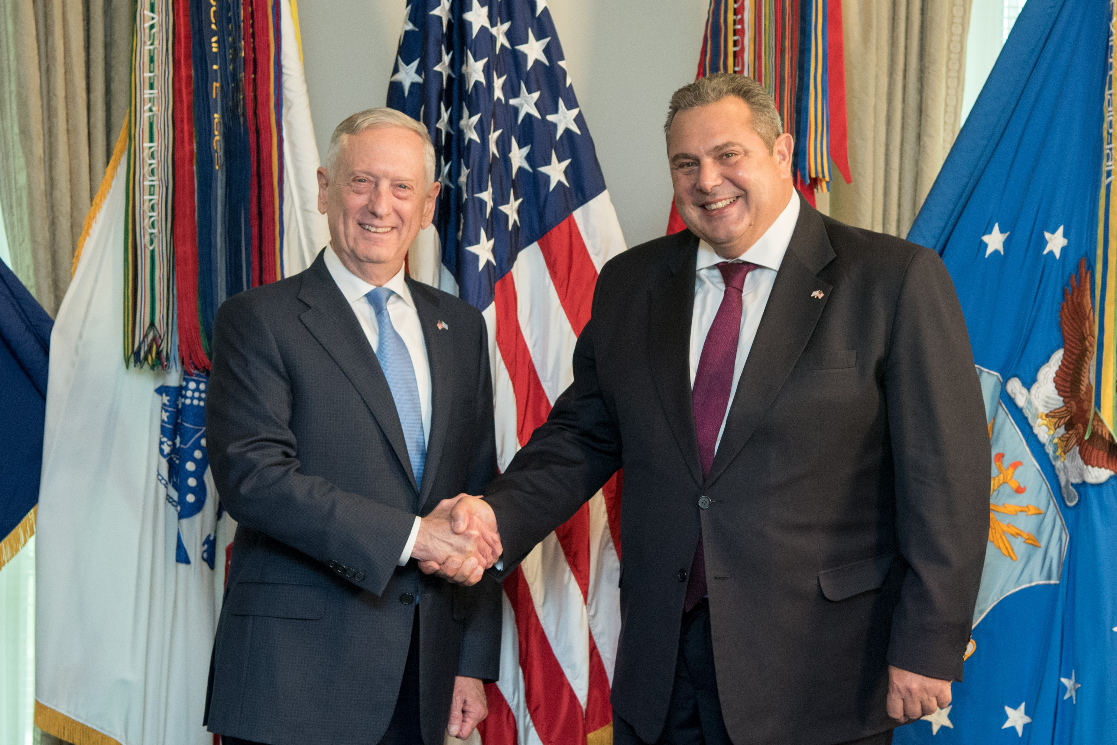 U.S. Secretary of Defense James N. Mattis meets with the Minister of National Defence for Greece Panos Kammenos at the Pentagon in Washington, D.C., Oct. 9, 2018. (DoD photo by Sgt. Amber I. Smith)